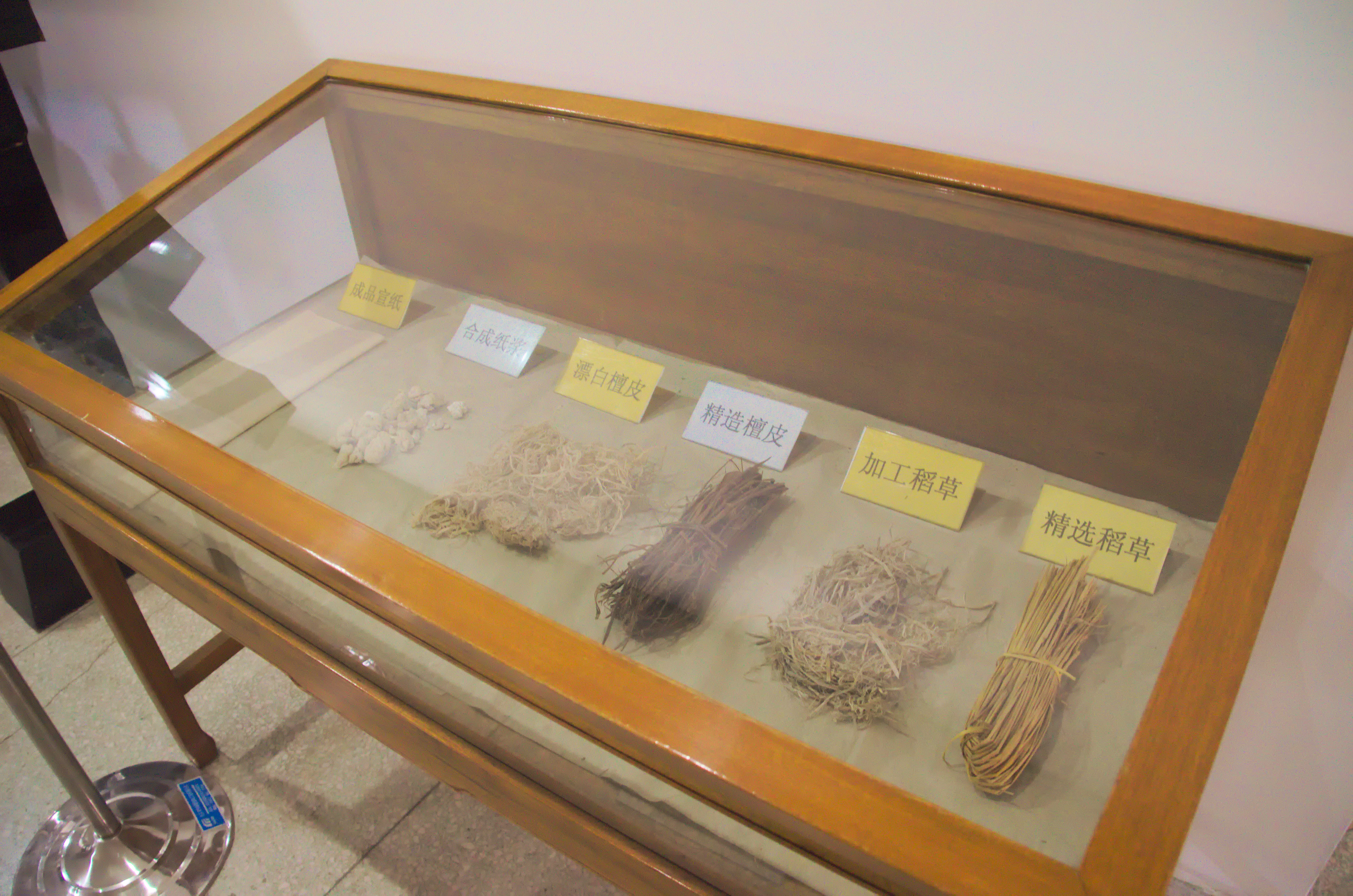 Making rice paper technics at Beijing China Printing Museum. From right to left: 精选稻草 - First choice rice straw. 加工稻草 - Transformed rice straw. 精造檀皮 - Santal skin finely made. 漂白檀皮 - Santal skin whitened. 合成纸浆 - synthetized paper paste. 成品宣纸 - rice paper final product.